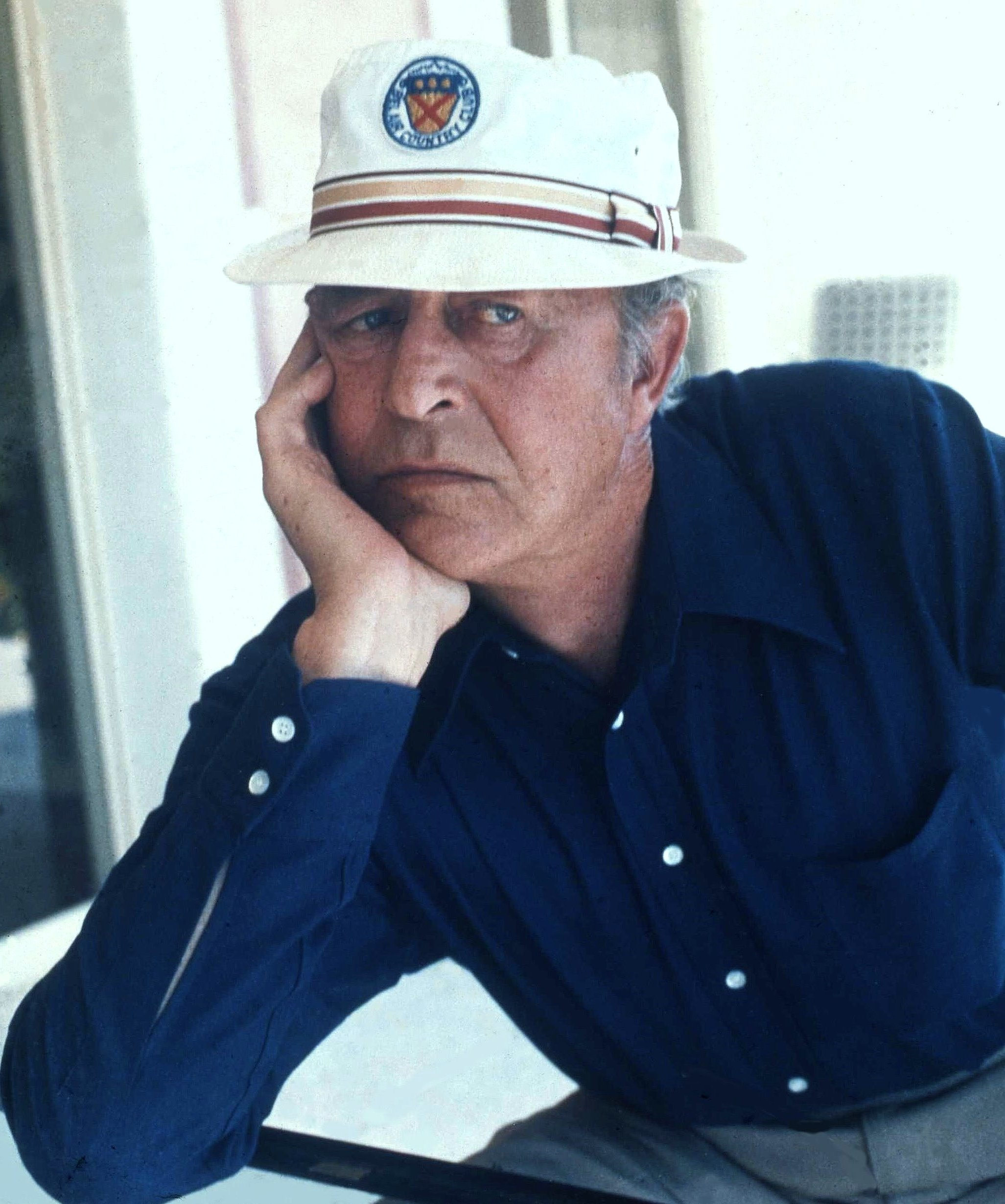 Ray Milland